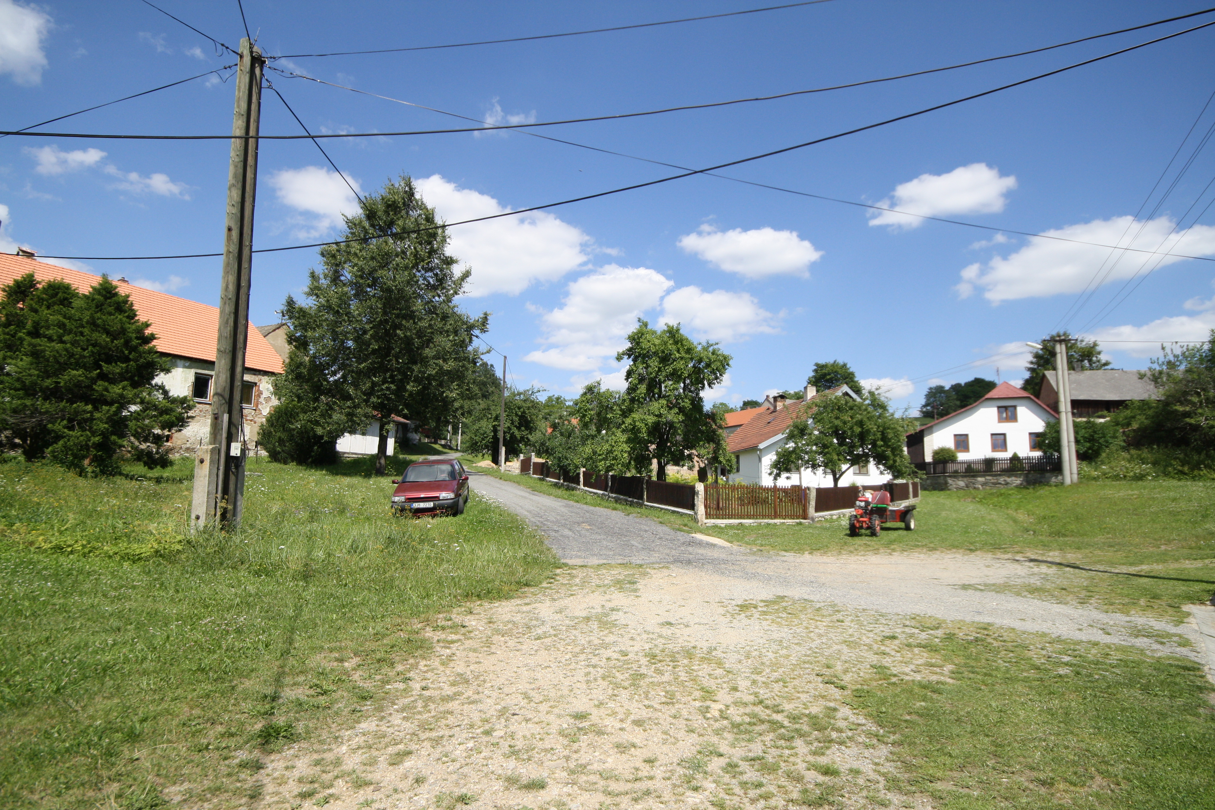 Center of Horní Smrčné, Třebíč District.